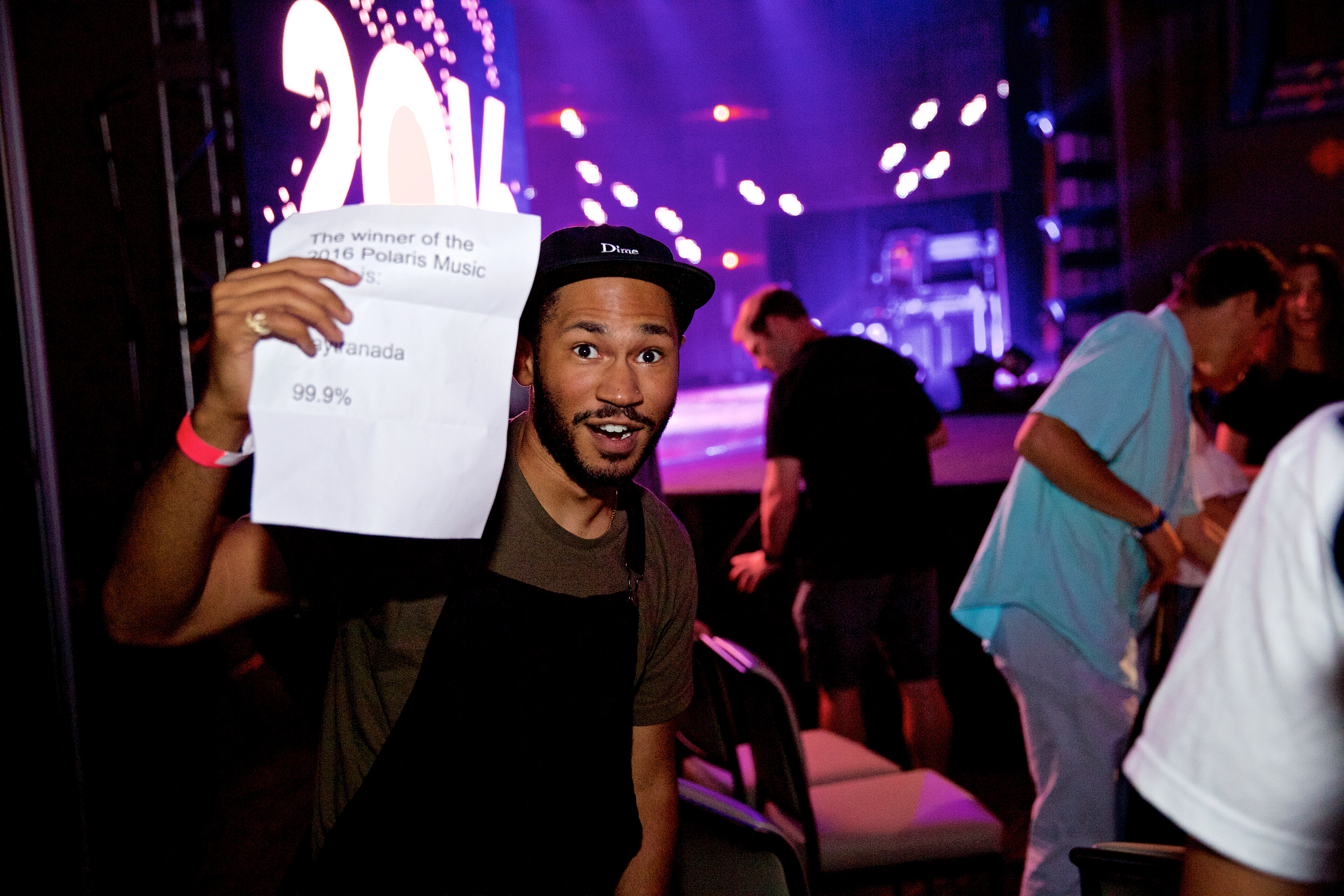 Kaytranada shows the proof that he won the 2016 Polaris Music Prize. Photo by Danny Williams.